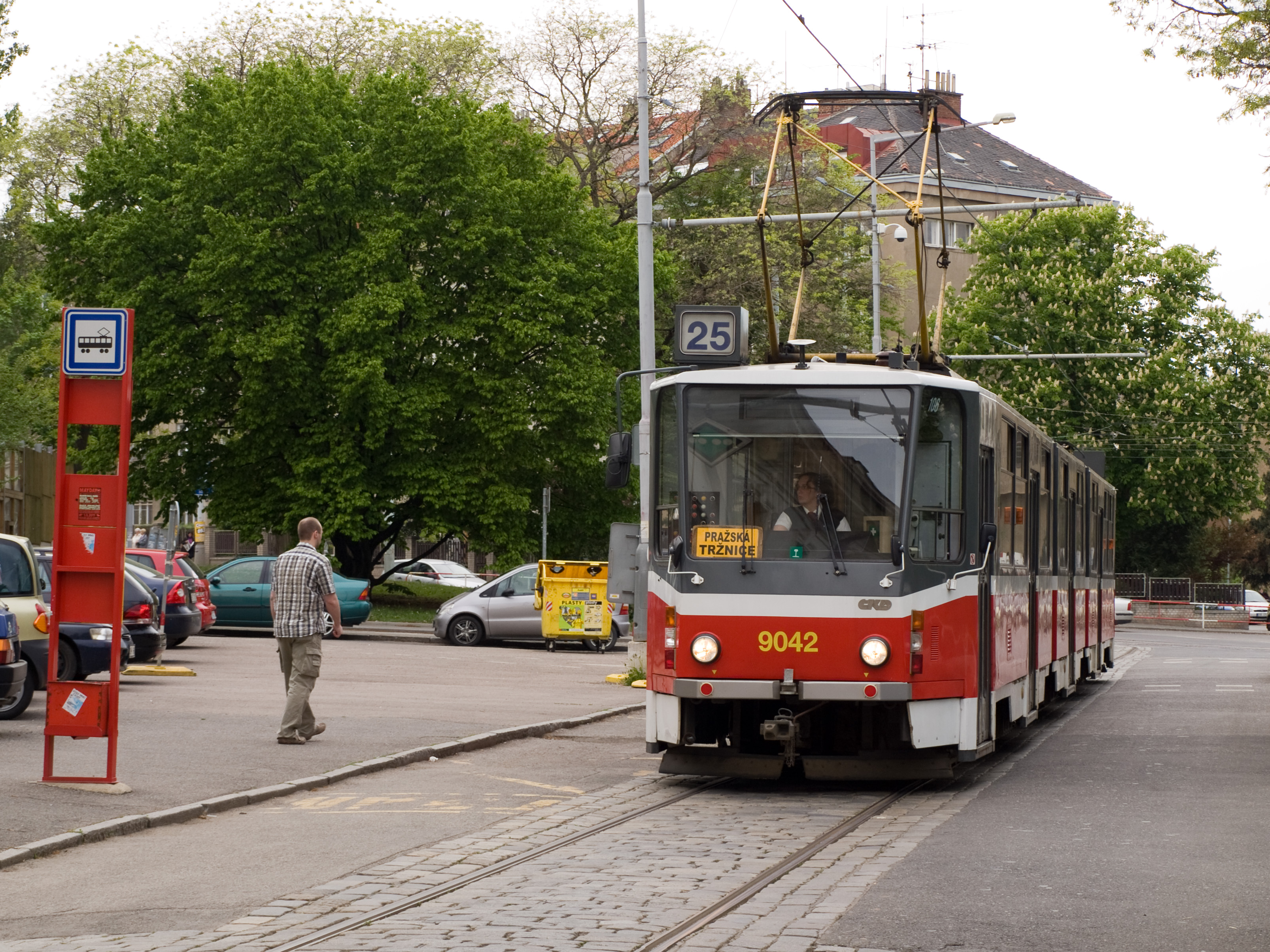 Tatra KT8D5, Tram track Hládkov, Prague